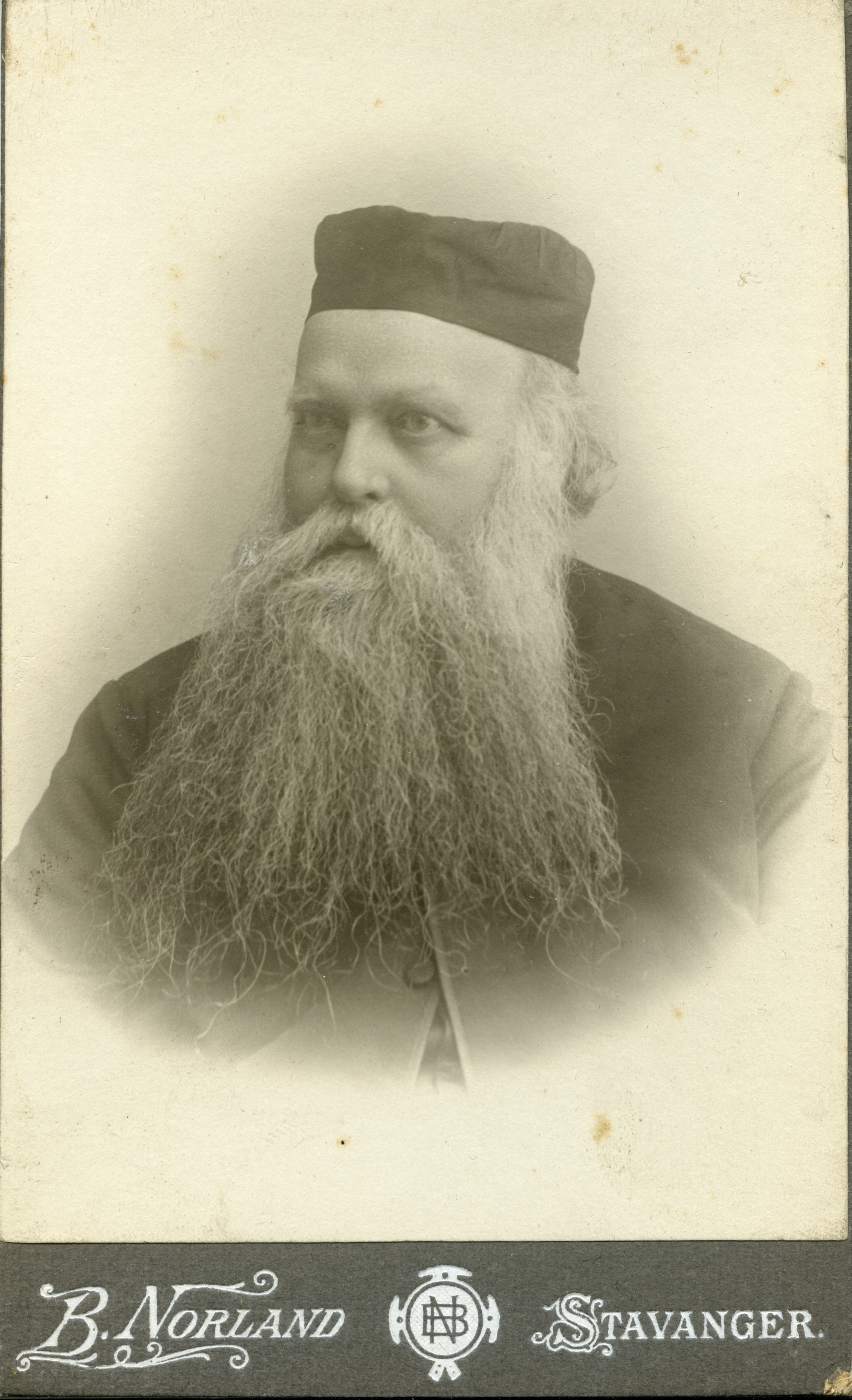 Lars Larsen Vig served as ordained missionary for the Norwegian Mission Society (NMS) in Madagascar 1874-1902. Alongside his work he did ethnographic studies of Malagasy religion and culture. The photo is from the collection of the Film- and photo department of the NMS, at the Mission and Diakonia Archives, VID.